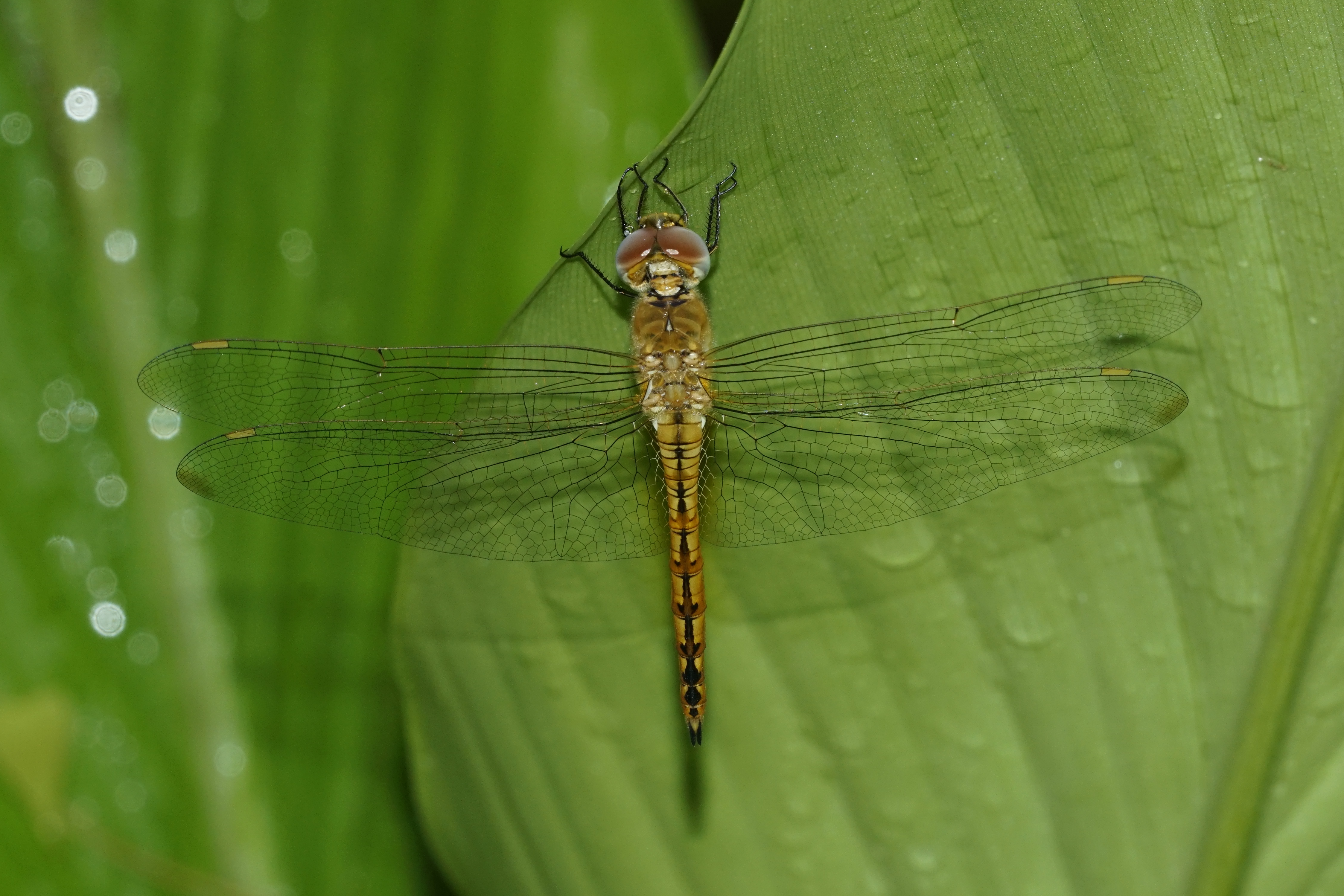 Pantala flavescens